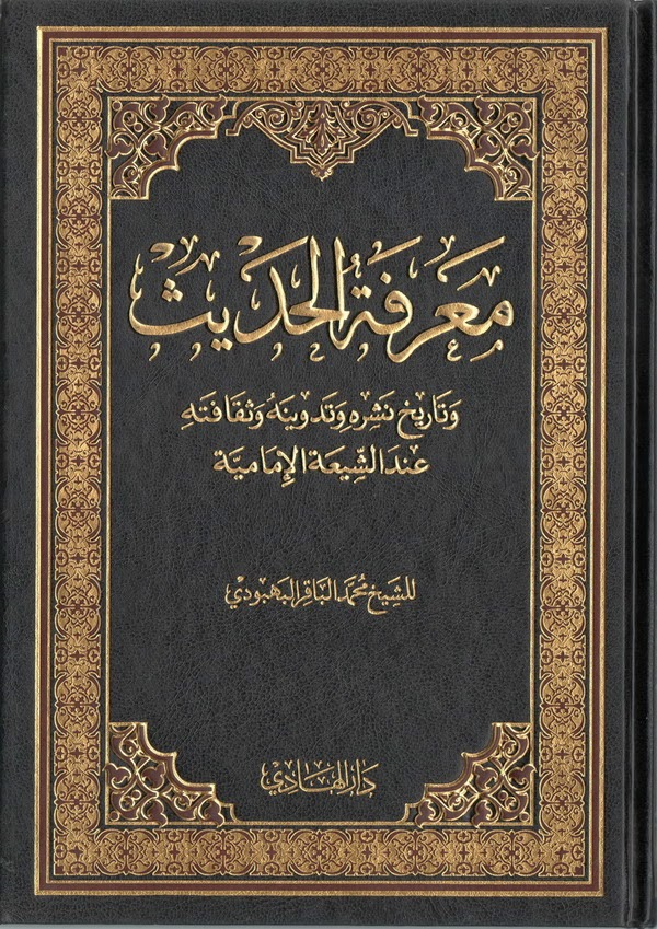 صورة غلاف كتاب "معرفة الحديث".